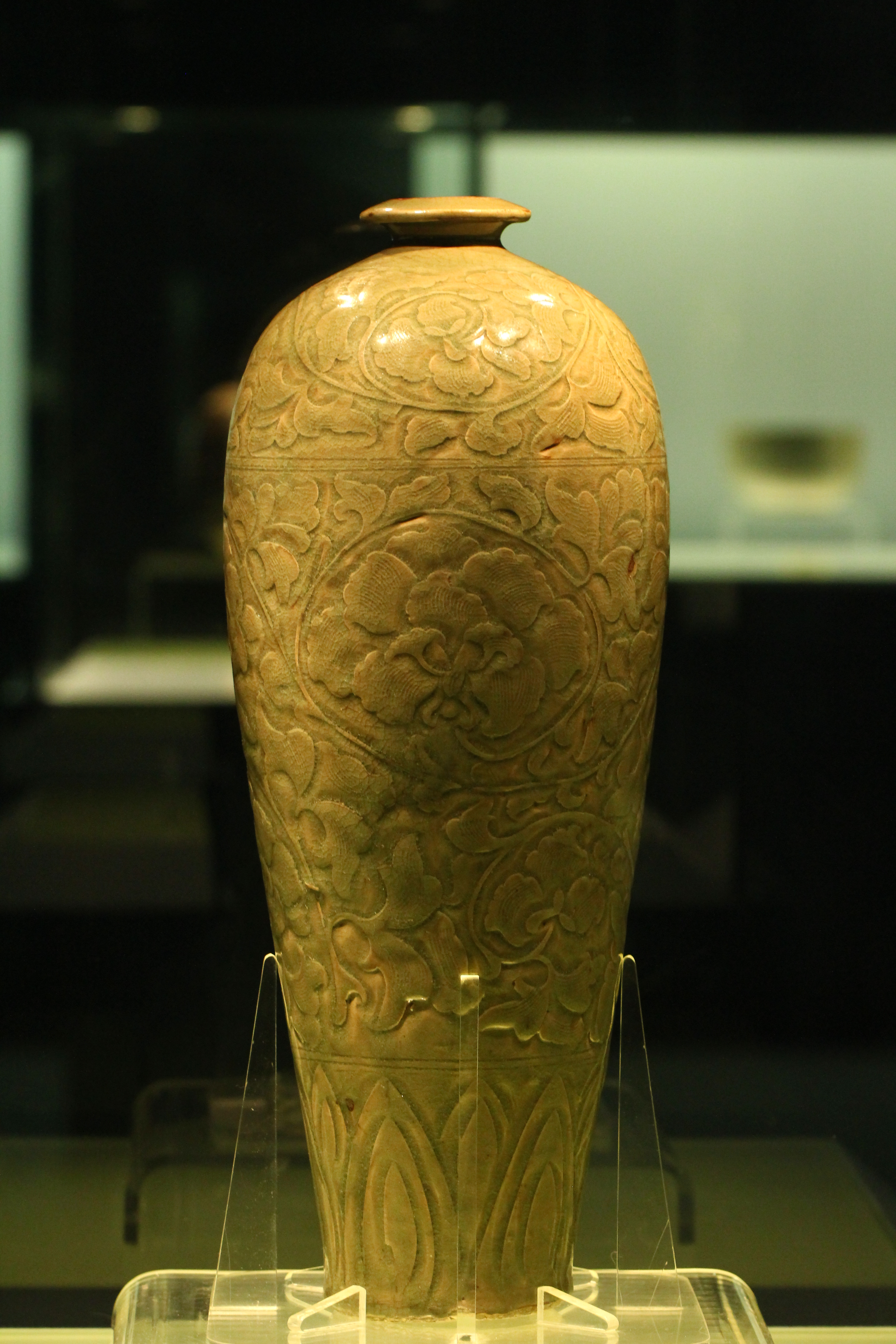 Celadon Meiping vase with carved peony design. Yaozhou Ware. Song A.D. 960-1279.